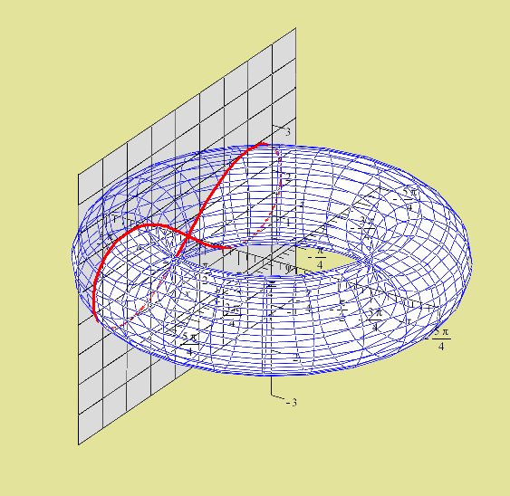 Construction of a hippopede as the intersection of a torus and an tangent plane